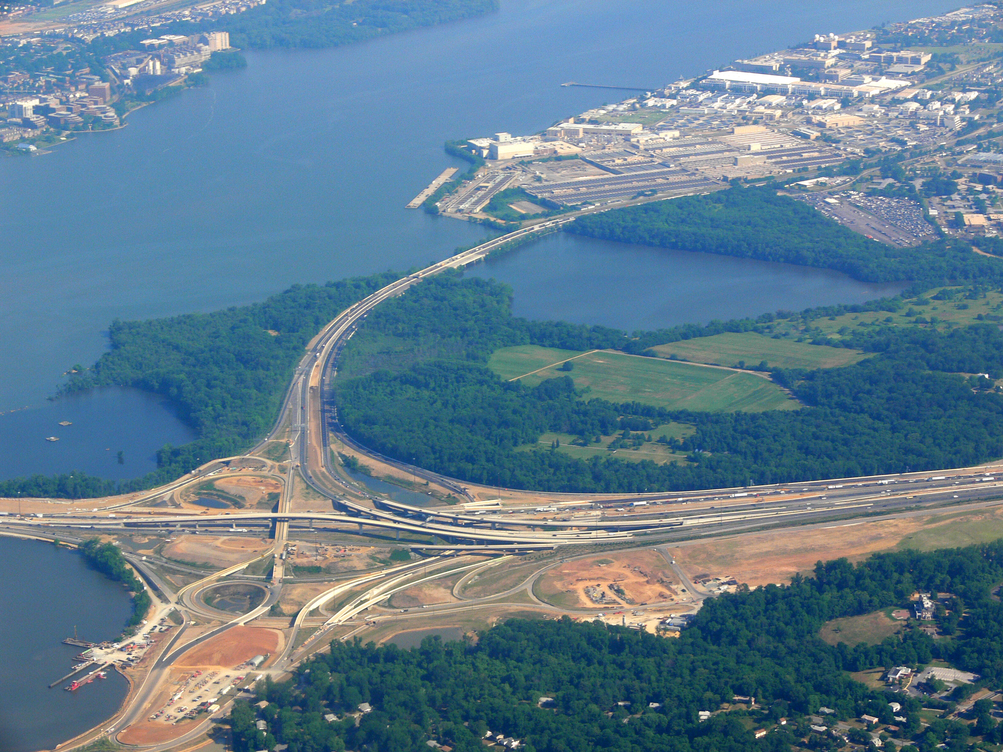 Junction of Capital Beltway I-95/I-495 and the southern terminus of Anacostia Freeway I-295; Potomac River; Oxon Hill Farm